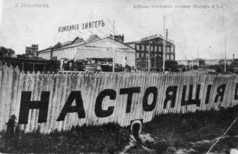 Singer Sewing Machines factory in Podolsk, Russia. Established 1900, production commenced in 1902.